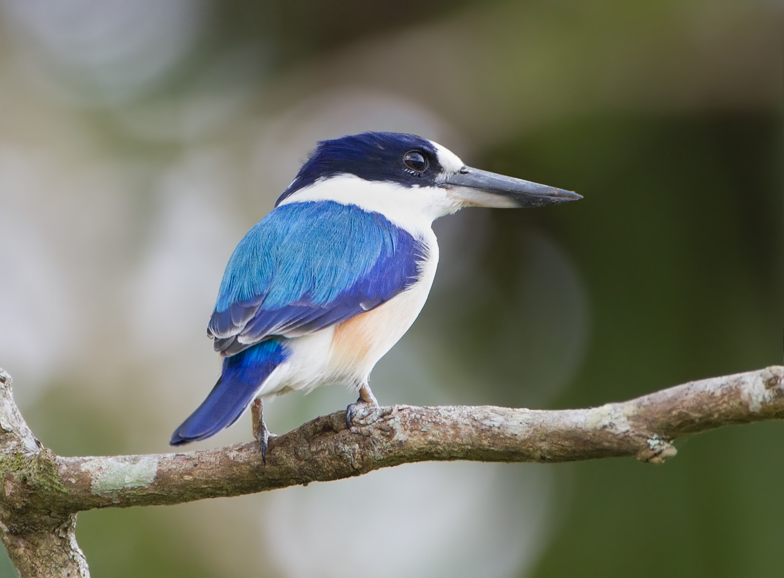 Forest Kingfisher (Todiramphus macleayii), Daintree Village, Queensland, Australia